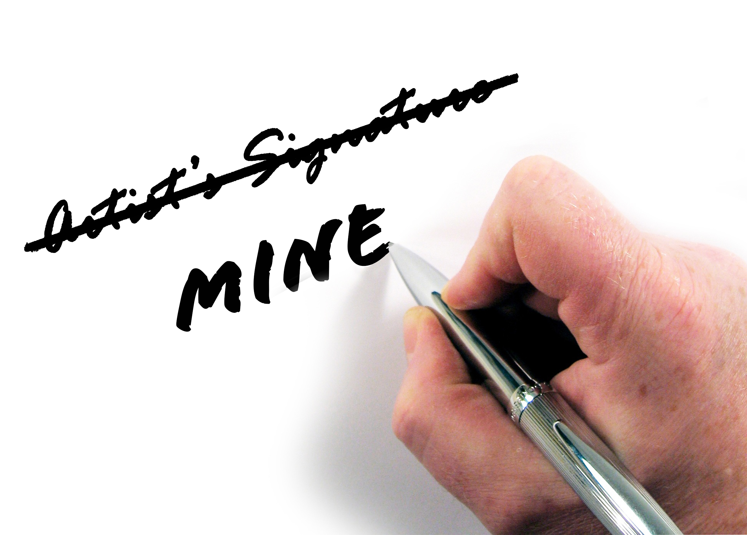 Person crossing out artist's signature to claim work as their own Hand: (public domain)